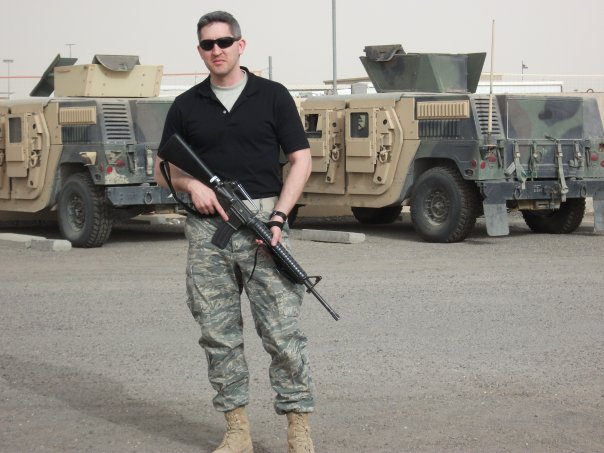 A member of the U.S. Air Force with an M16 in Kuwait.